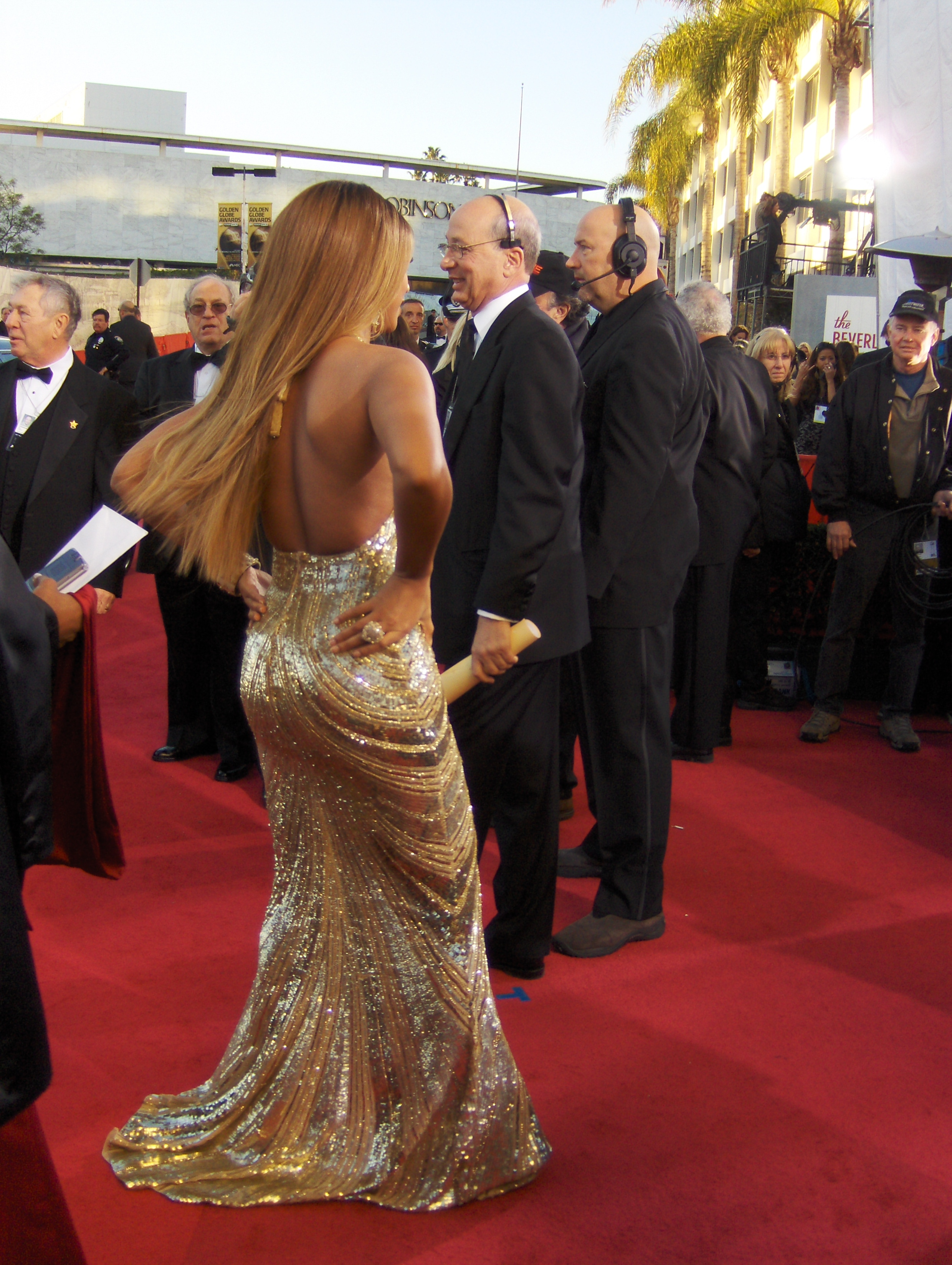 Beyoncé Knowles, Back - She looked my way only briefly, but that's okay, because she looks fantastic from both sides. More on my blog: UPDATE 7/6/07 - 2,345 views and finally someone adds it as a favorite!